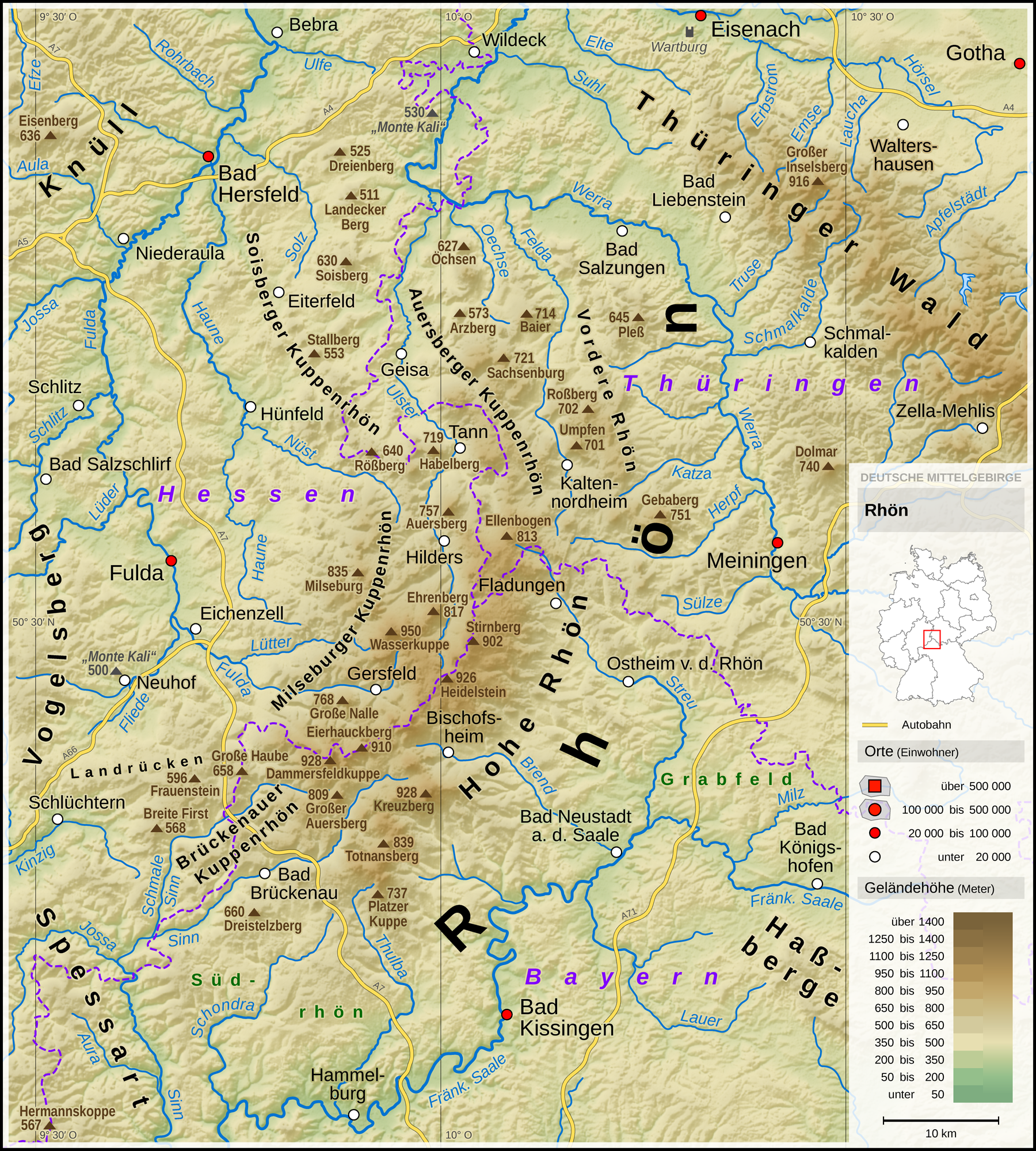 Topographic map of the Rhön Mountains